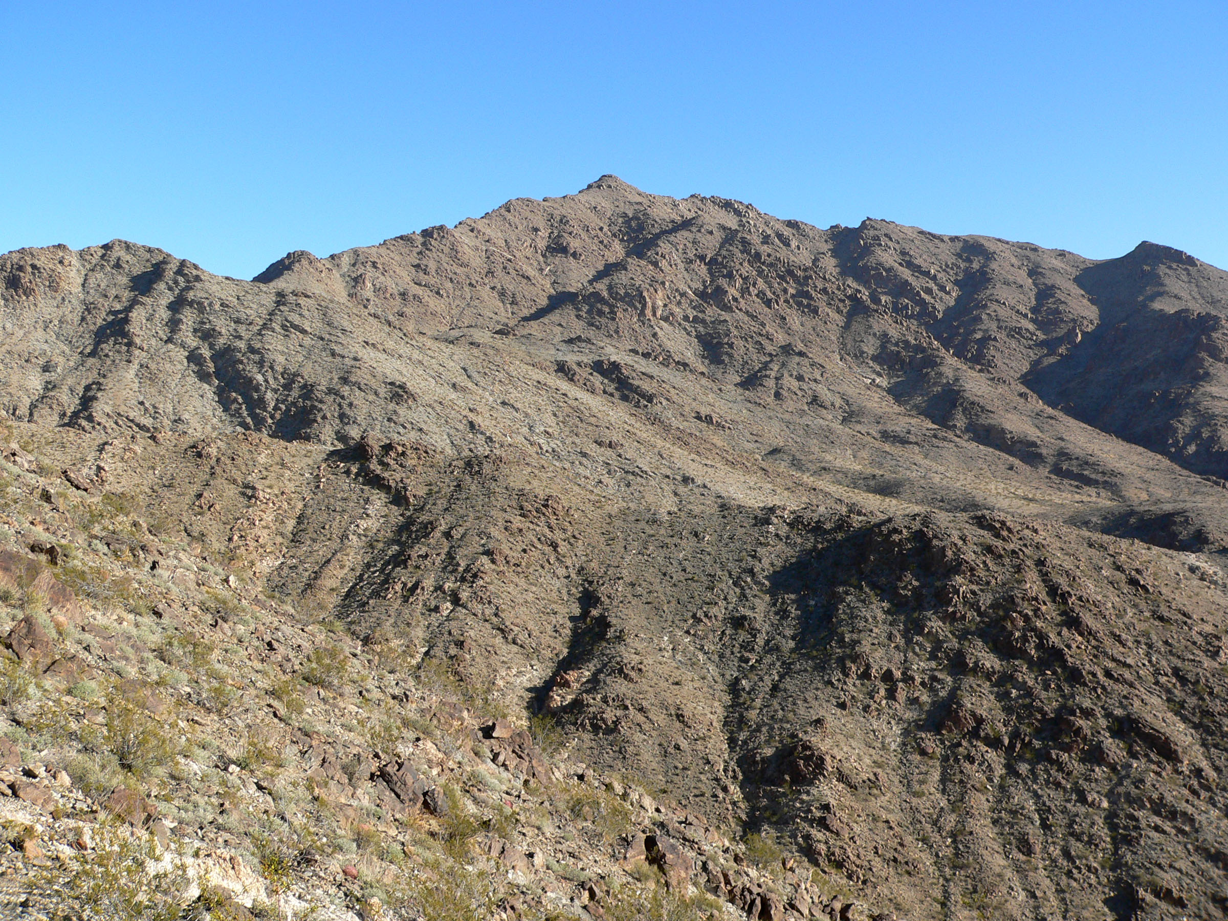 View of Mount Wilson (Arizona), northwestern Arizona